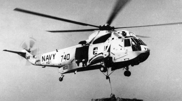 A U.S. Navy Sikorsky SH-3G Sea King (BuNo 148037) from Helicopter Anti-Submarine Squadron 1 (HS-1) "Seahorses" hovering over the guided missile destroyer USS Benjamin Stoddert (DDG-22), not visible, circa in 1986. Note the helicopter's nickname "Desert Duck". The "Desert Duck" was the nickname of the HS-1 Detachment 1 helicopter(s) assigned to the "Commander, Middle East Forces" (COMIDEASTFOR) aboard the command ships USS La Salle (AGF-3) or USS Coronado (AGF-11), mostly stationed at Bahrain.